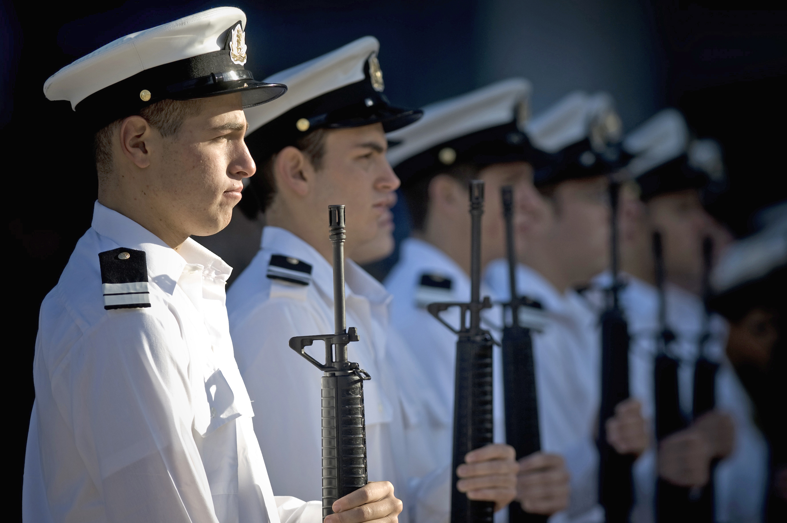 Israeli Sea Corps Soldiers